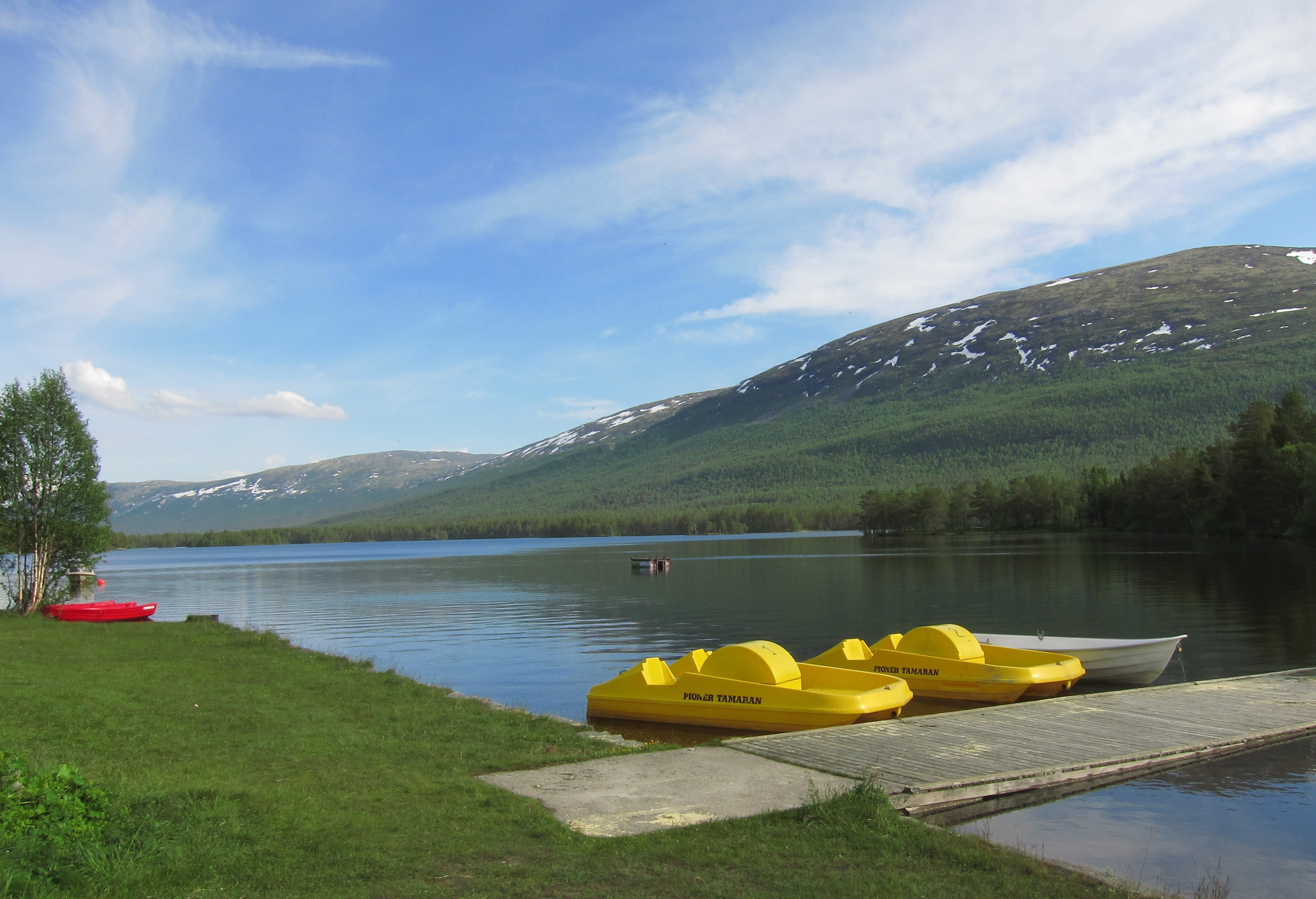 Lesjaskogsvatnet (Lesjaskog lake) at Aaheim. 615 meters above sea level